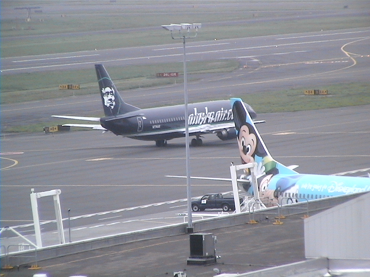 Spirit of Disneyland (N784AS) and website (N774AS) jets together at KPDX